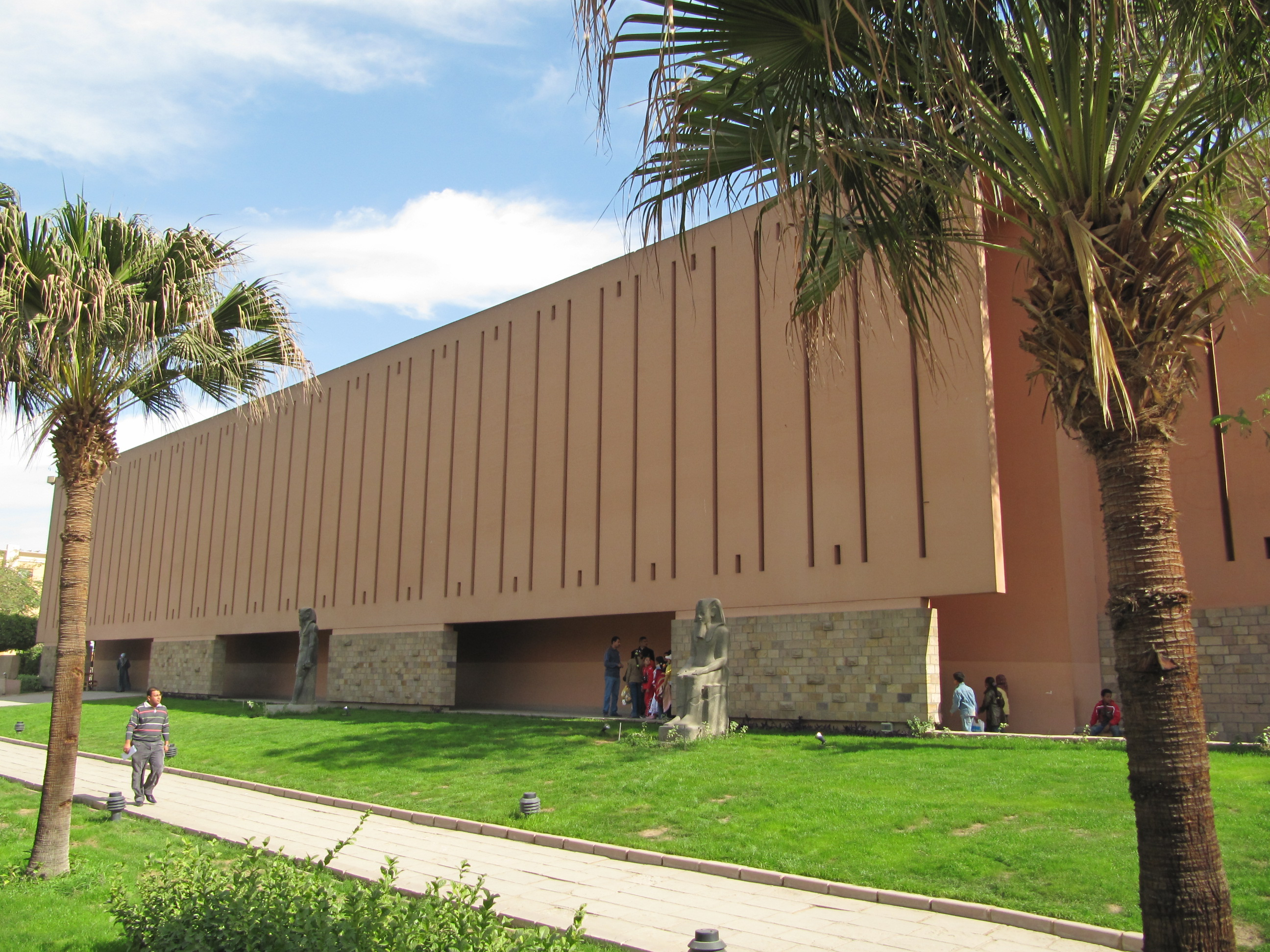 Luxor Museum